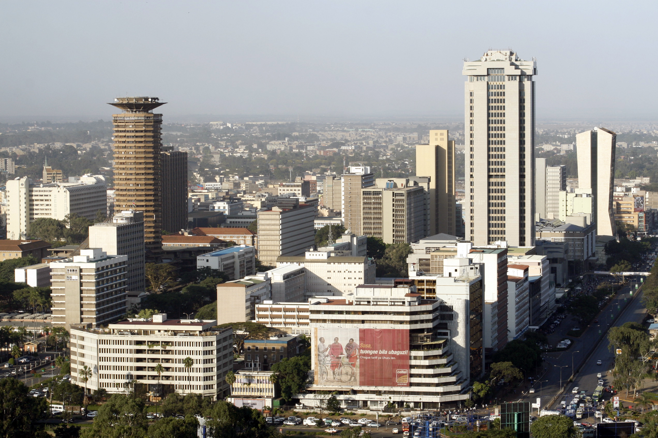 Aerial view of nairobi city